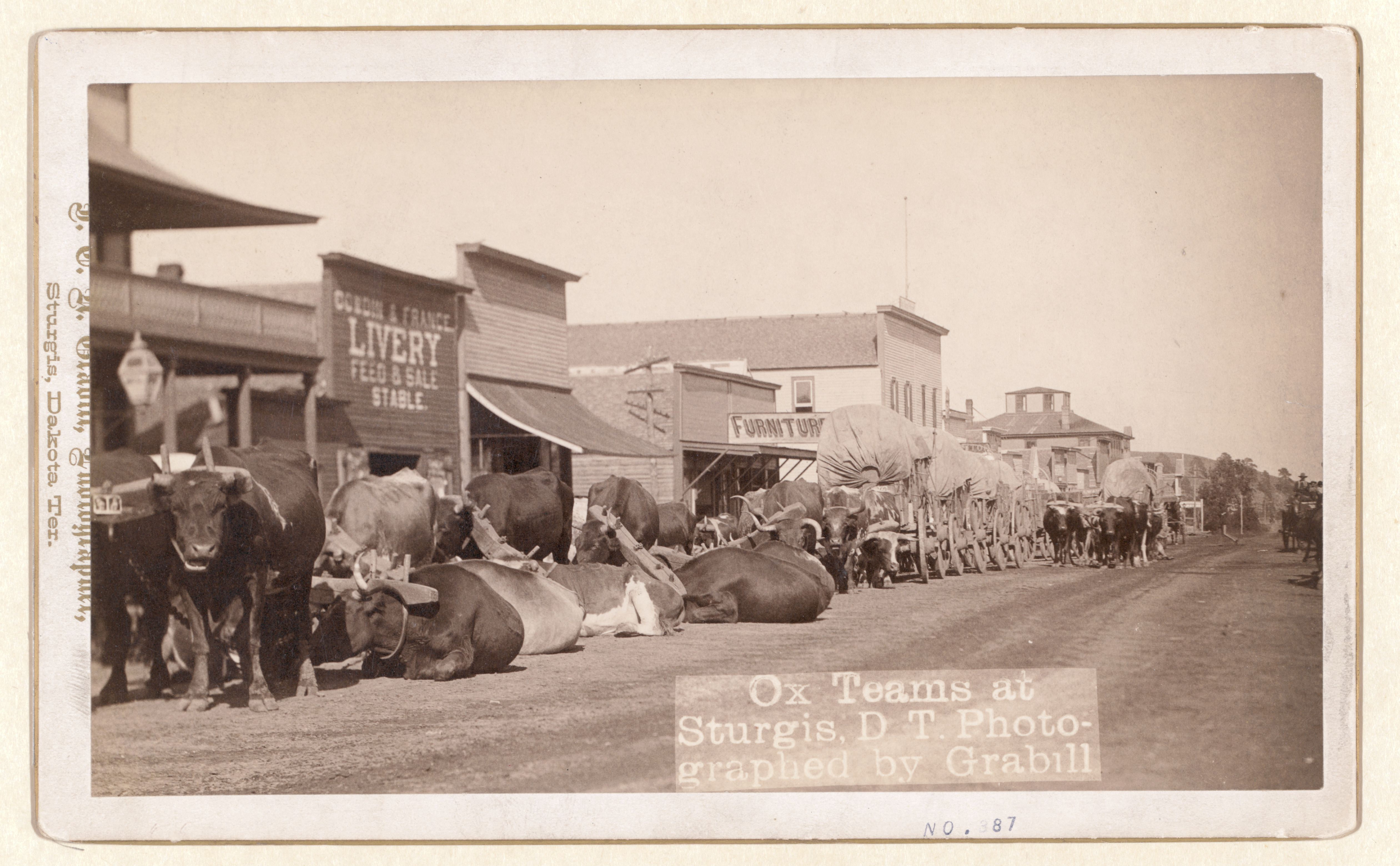 Original title Ox teams at Sturgis, D.T. [i.e. Dakota Territory]